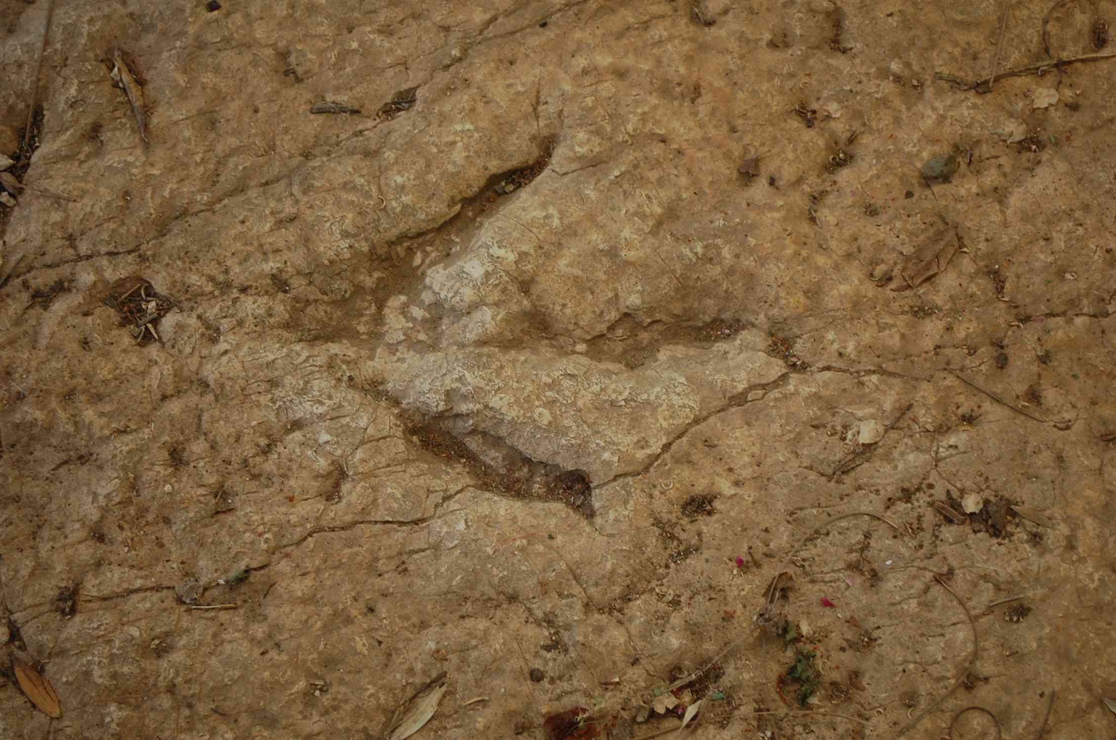 footprint of dinosaurus from Biet Zayit near Jerusalem